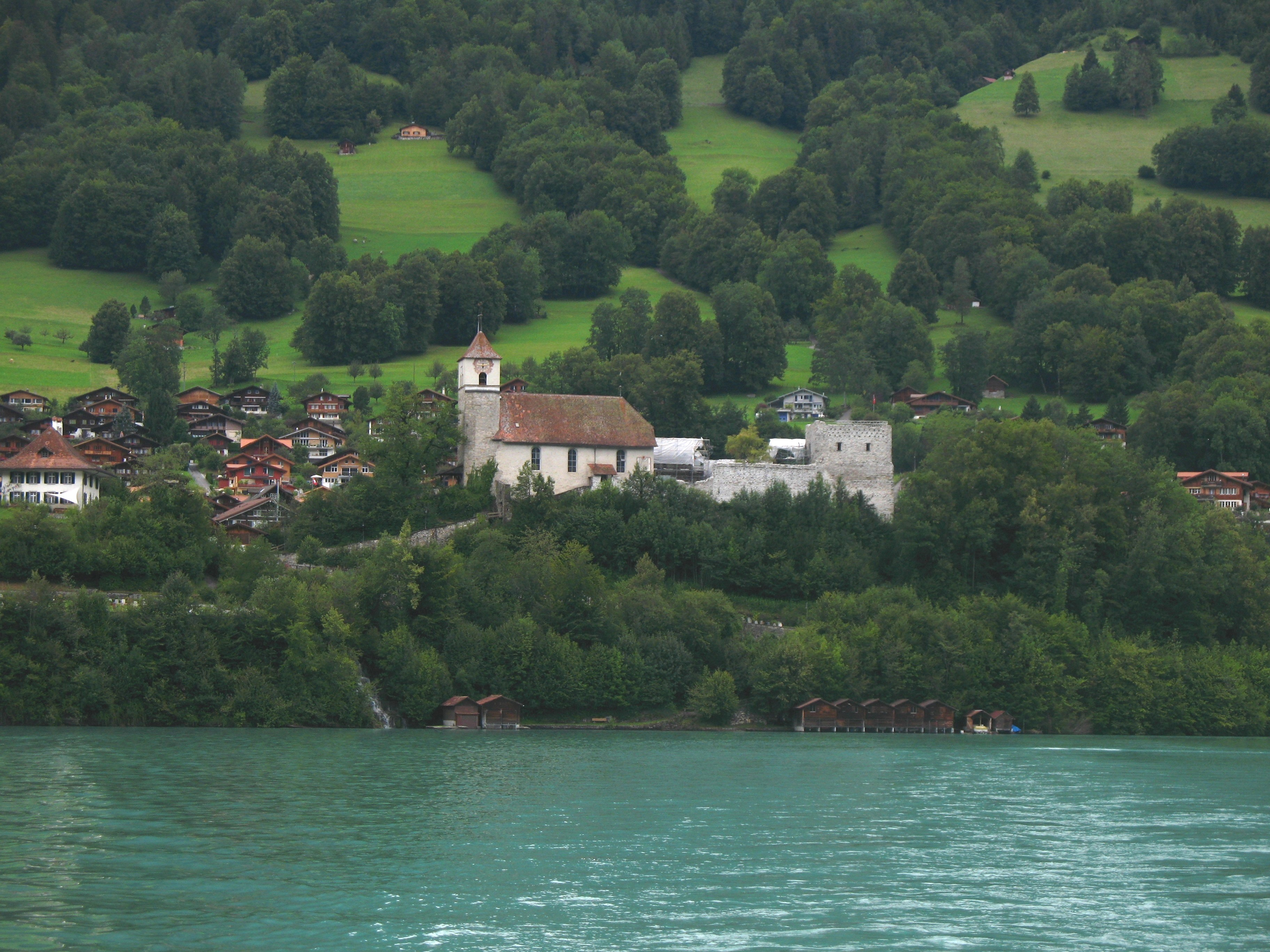 The church of Ringgenberg, Switzerland